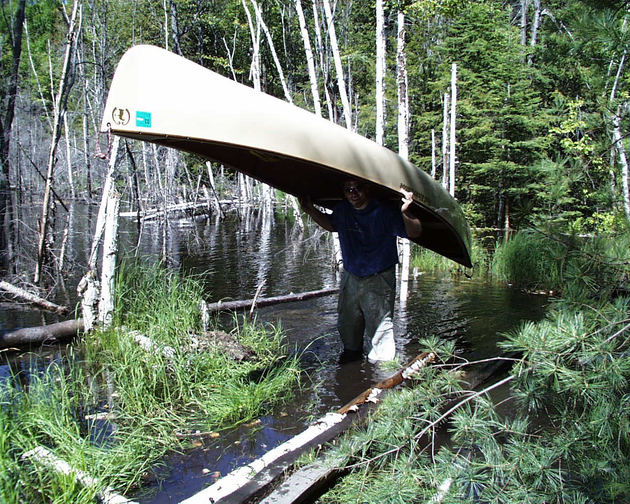 The week before we arrived at Killarney, the area received record rainfall. As a result, many of the lakes were well over their banks. The final 100 meters of portage trail leading to the East end of David was literally a stream but too loaded with brush and logs to paddle, we had to carry our canoes in the knee-deep water.